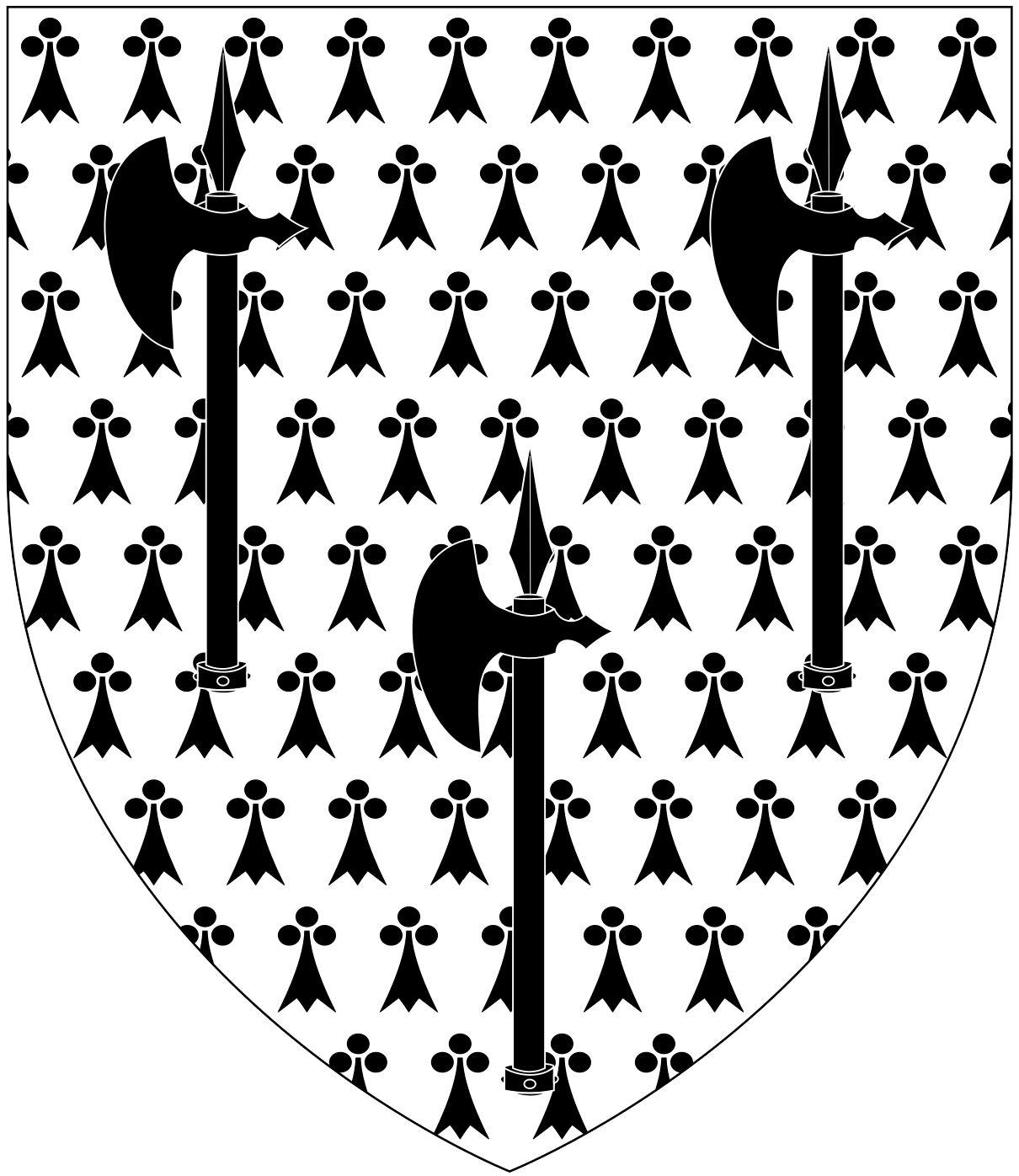 Arms of Wykes of North Wyke in the parish of South Tawton, Devon and of Weekes of Honeychurch, Devon: Ermine, three battle-axes sable (Vivian, Lt.Col. J.L., (Ed.) The Visitations of the County of Devon: Comprising the Heralds' Visitations of 1531, 1564 & 1620, Exeter, 1895, pp.776,825)